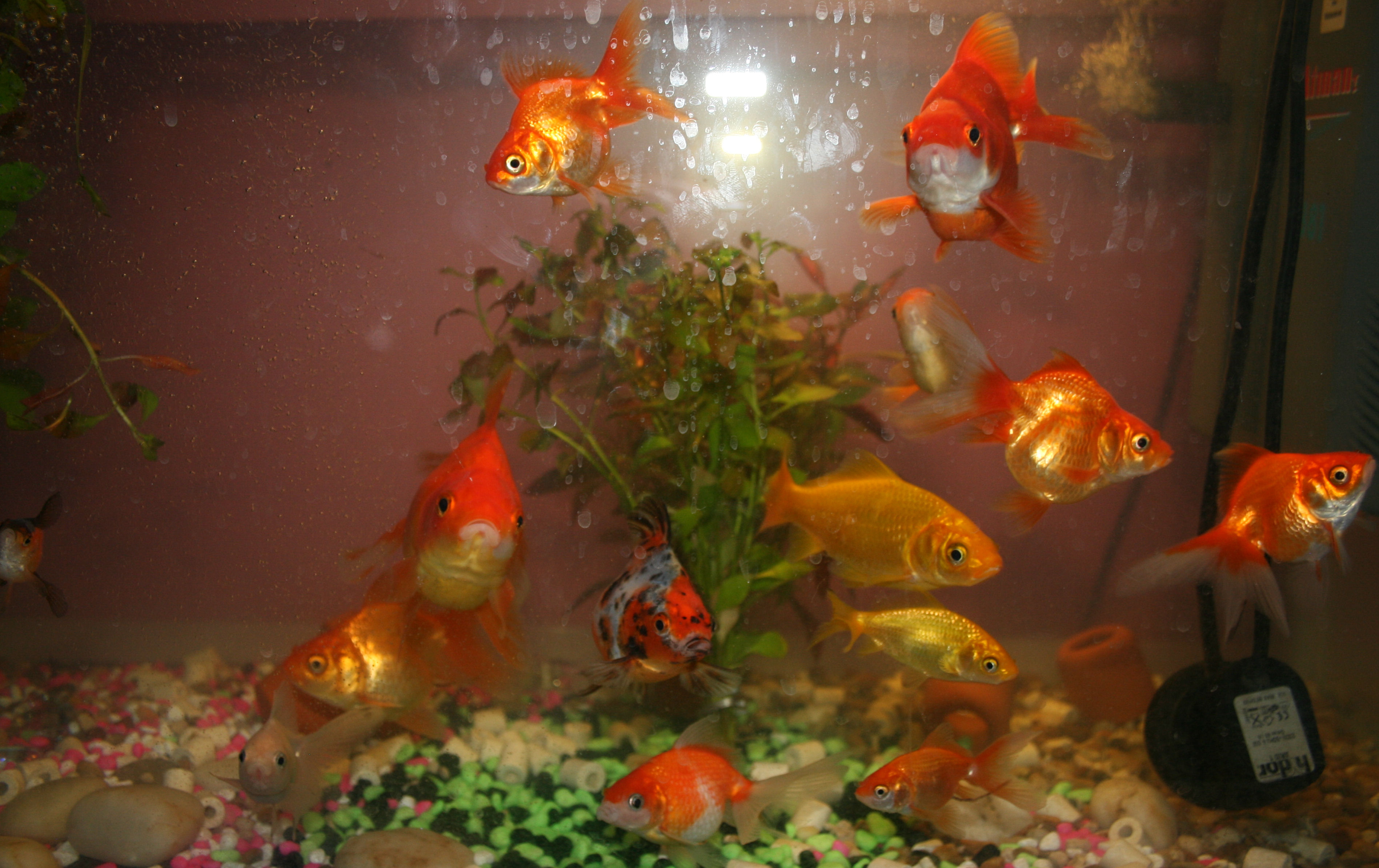 Many breeds of goldfish shown together in an aquarium